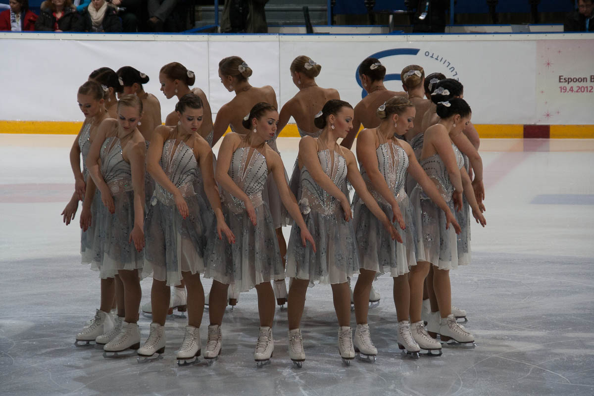 Team Unique, Finnish championships 2012, short program